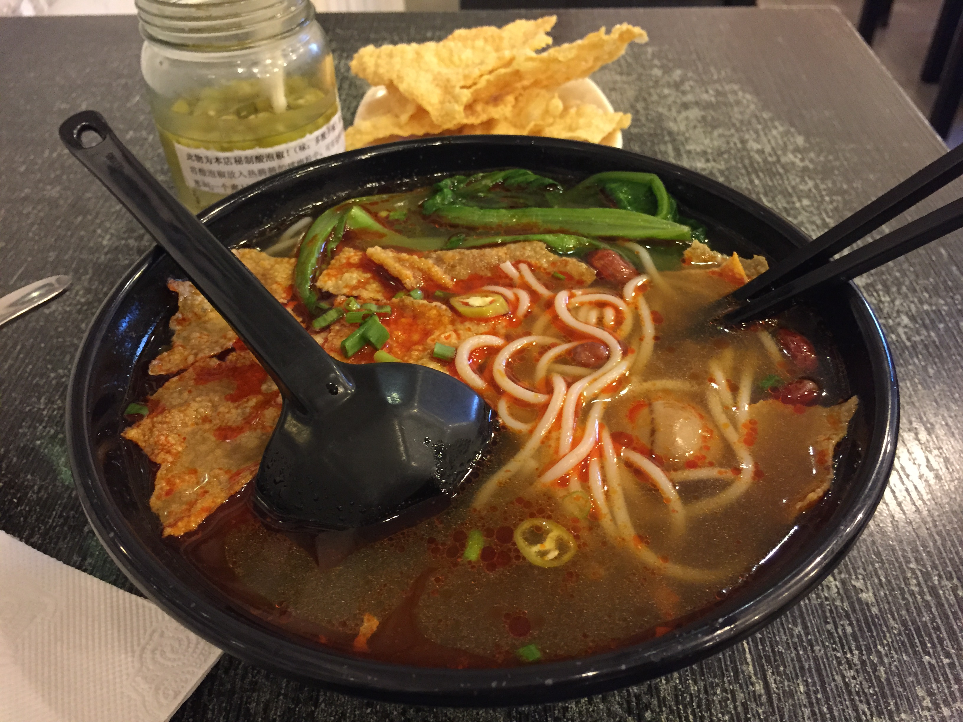 Taken at Suojiafen, with soured pepper.